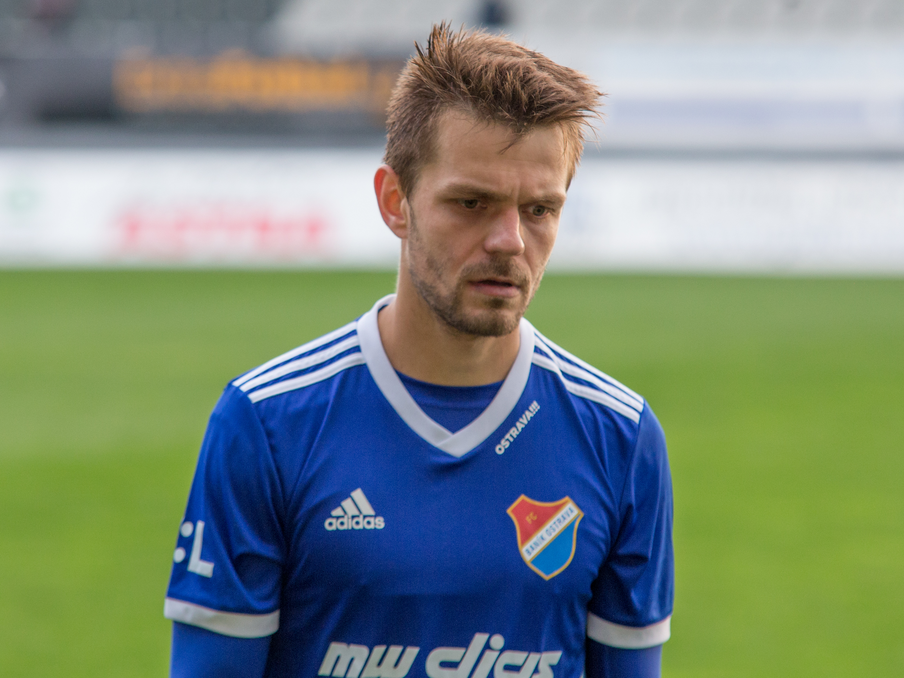 Milan Jirásek at the Czech First League association football match with FK Jablonec v FC Baník Ostrava Personality rights warningAlthough this work is freely licensed or in the public domain, the person(s) shown may have rights that legally restrict certain re-uses unless those depicted consent to such uses. In these cases, a model release or other evidence of consent could protect you from infringement claims.